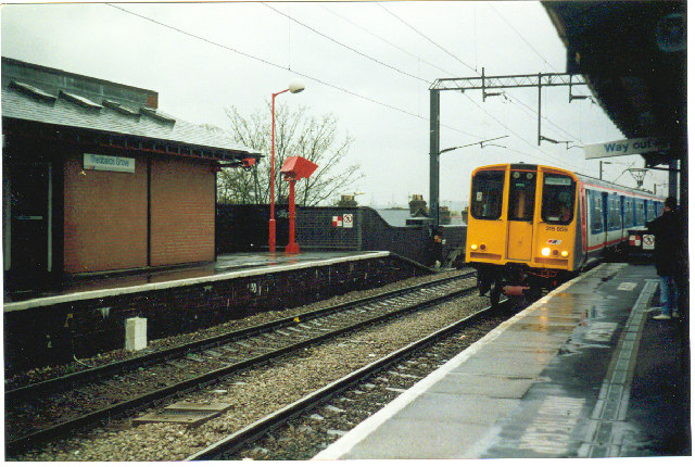 Theobald's Grove Station.